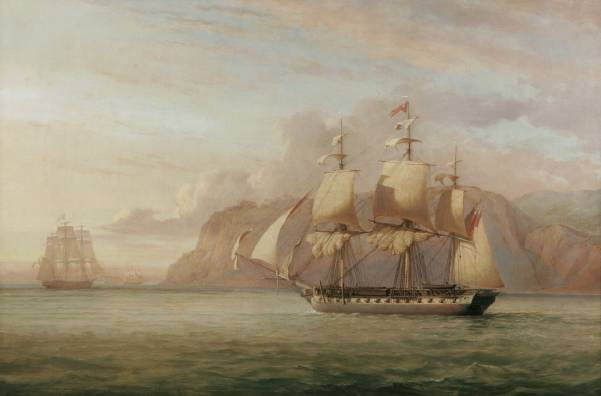 A depiction of the H.M.S. Amelia pursuing the French frigate Aréthuse.